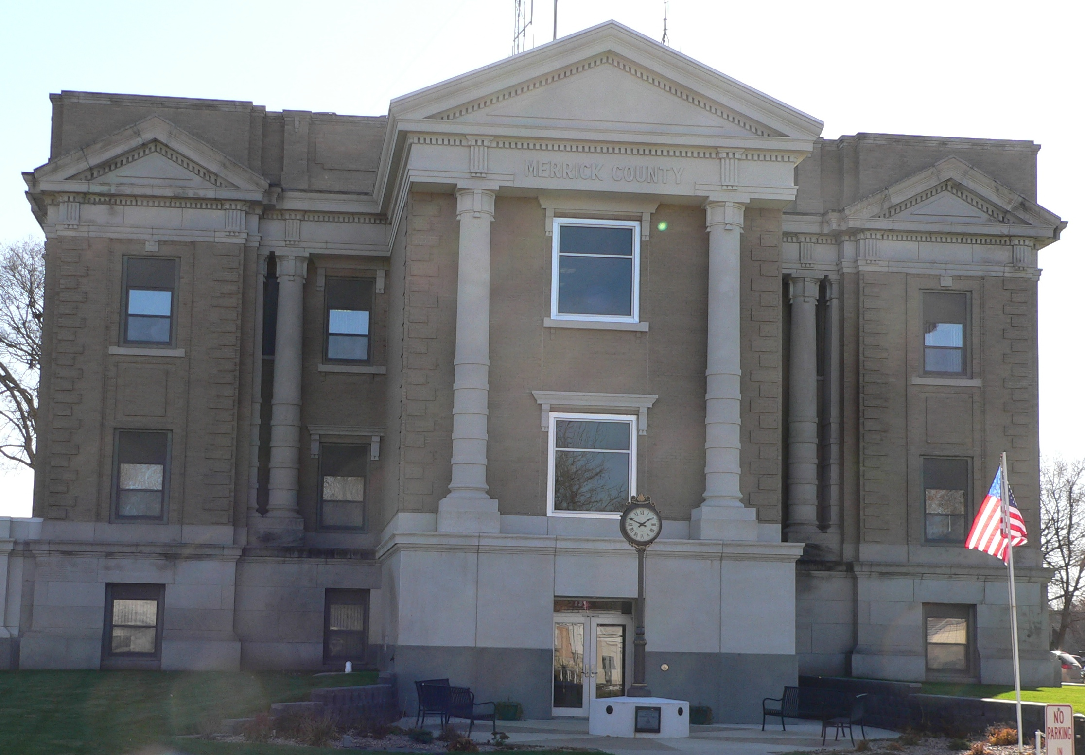 Merrick County Courthouse in Central City, Nebraska, seen from the front (north). The courthouse was designed in Classical Revival style by architect William F. Gernandt and built in 1911. It is listed in the National Register of Historic Places.